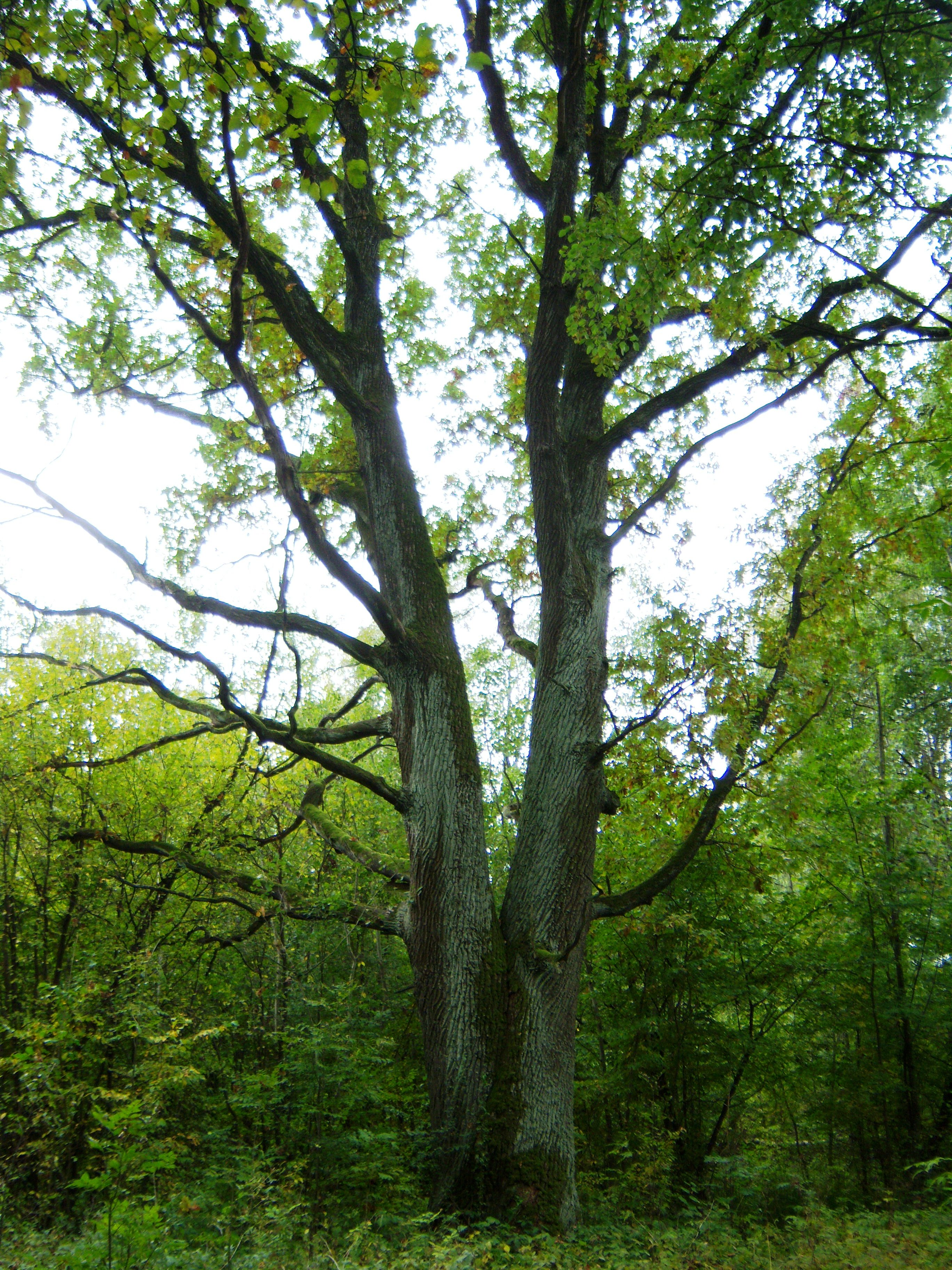 Mighty Oak near Kačergiai, Kaunas district, Lithuania